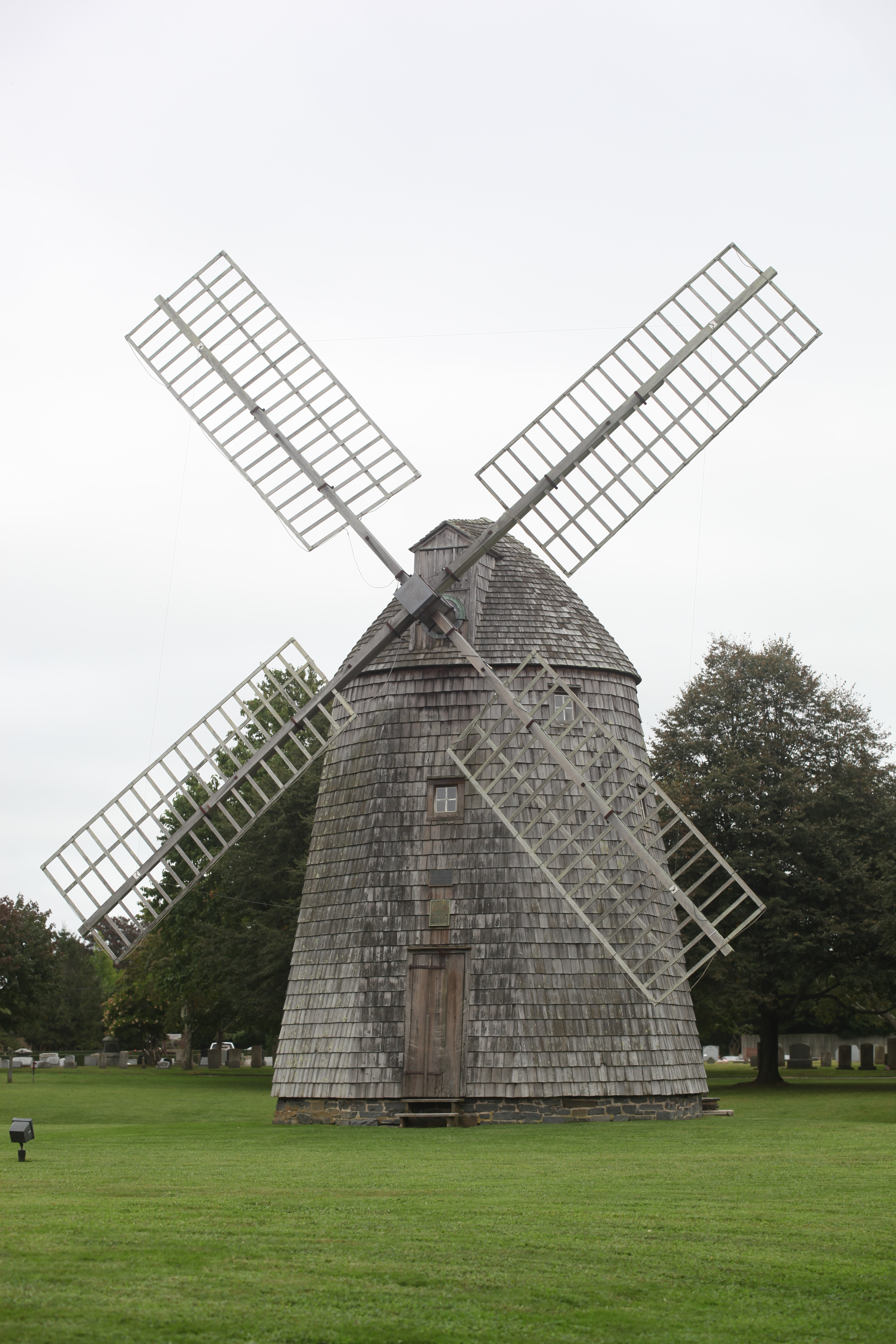 Windmill, 1800-1824 Water Mill, Southhampton, NY